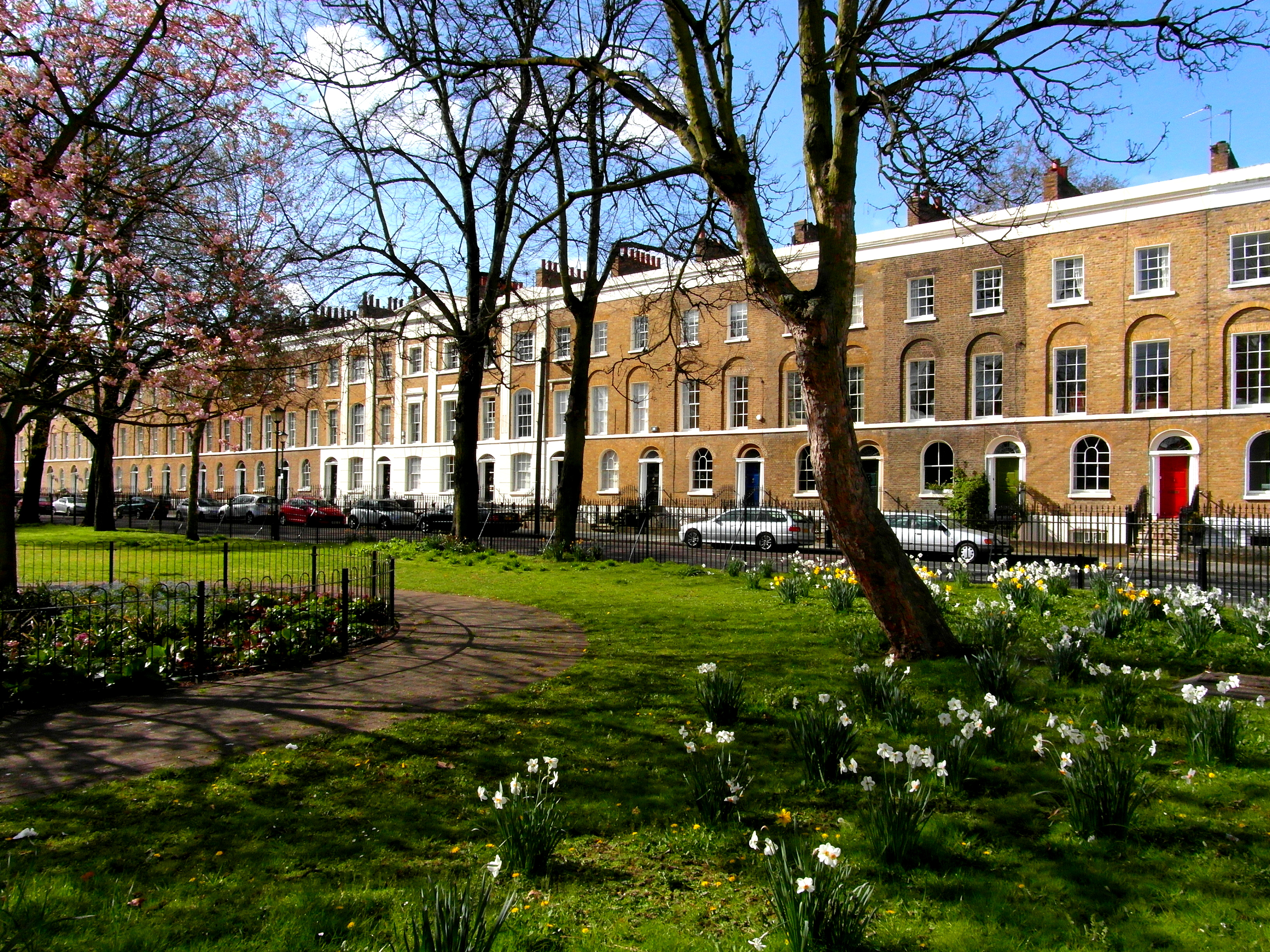 Tredegar Square, Mile End, Bow. Laid out in 1828-9.